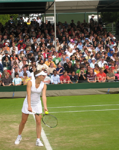 Anna Chakvetadze at Wimbledon 2007. By Chris Ng.